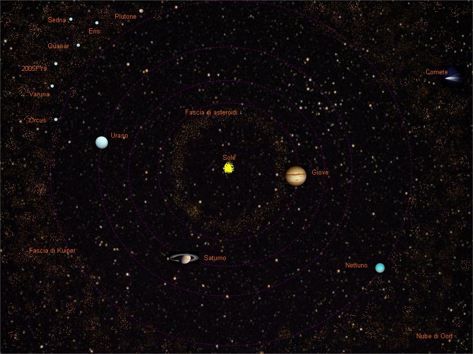 External Solar System